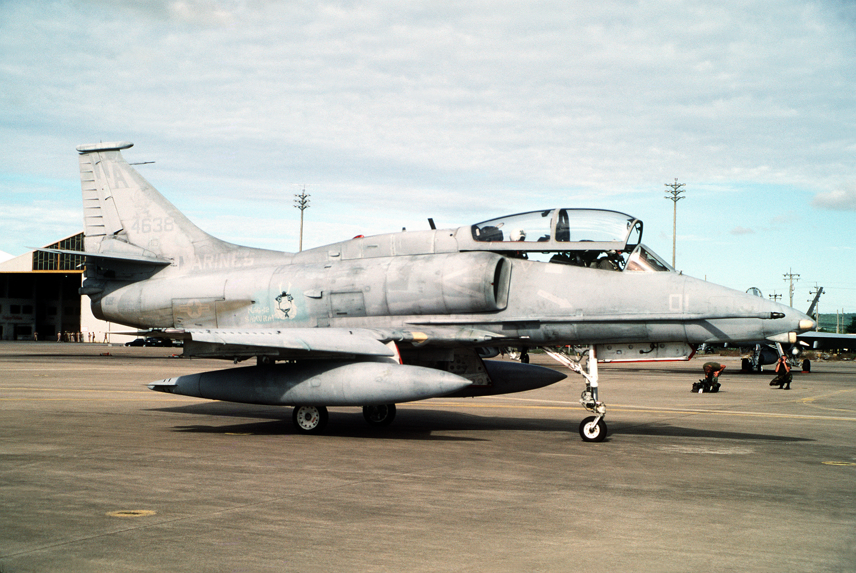 A U.S. Marine Corps McDonnell Douglas OA-4M Skyhawk (BuNo 154638) from Marine Aircraft Group 12 (MAG-12) taxis on the flight line during the combined Thai/U.S. joint exercise “Thalay Thai '89”, 1 September 1989. This aircraft was later put on static display at the main gate of Marine Corps Air Station Iwakuni, Japan.